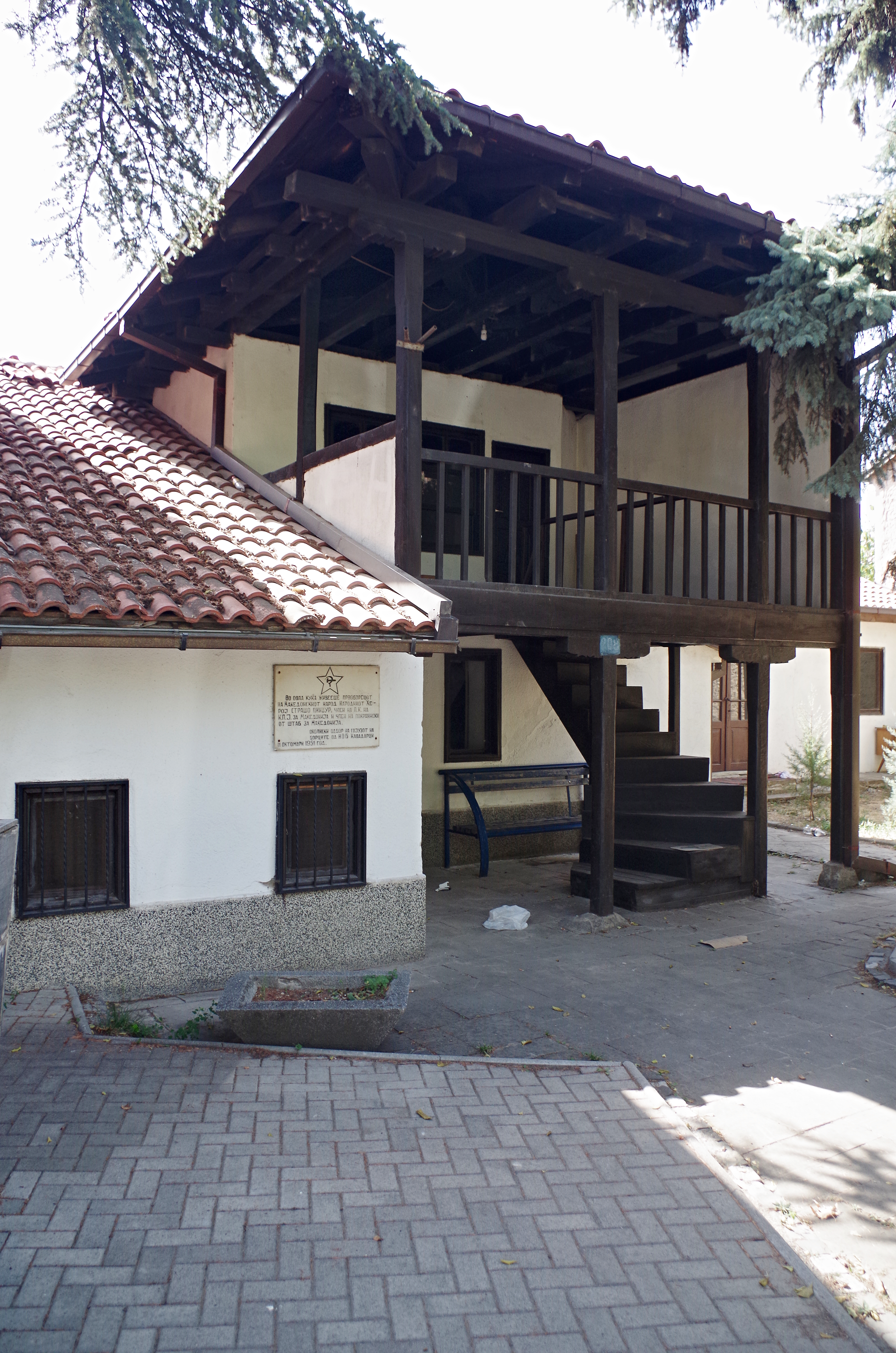 Memorial house of Strašo Pindžur in the village of Vataša